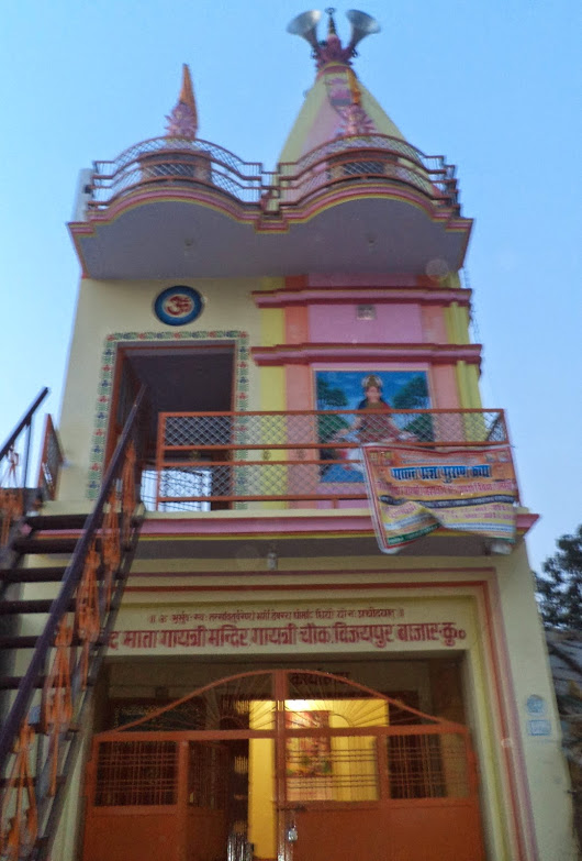 This is the Main Image Of Gaytri mandir vijaypur